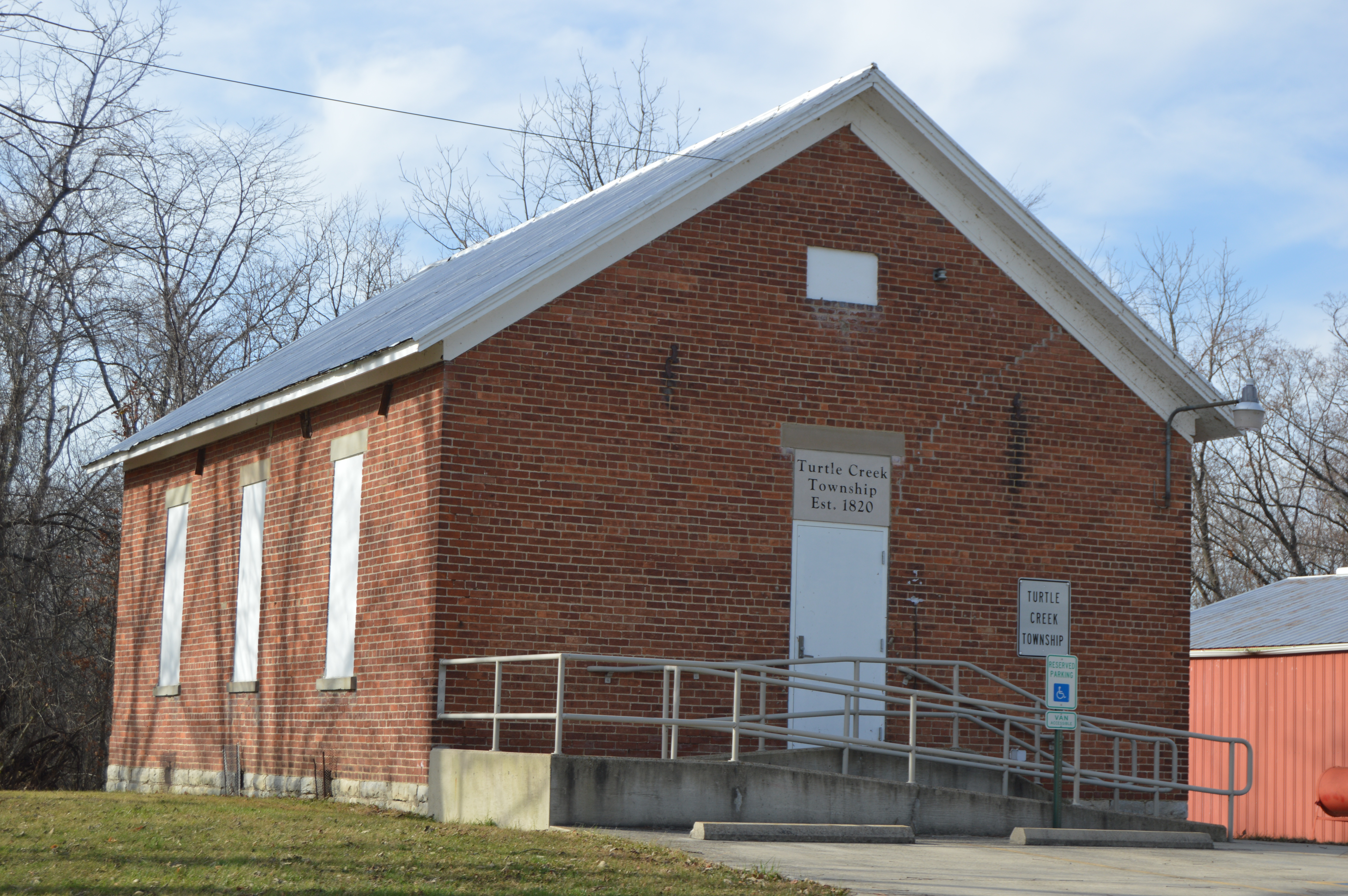 Front and southern side of the Turtle Creek township hall, located at 8477 Hardin Wapakoneta Road north of Hardin in Turtle Creek Township, Shelby County, Ohio, United States.